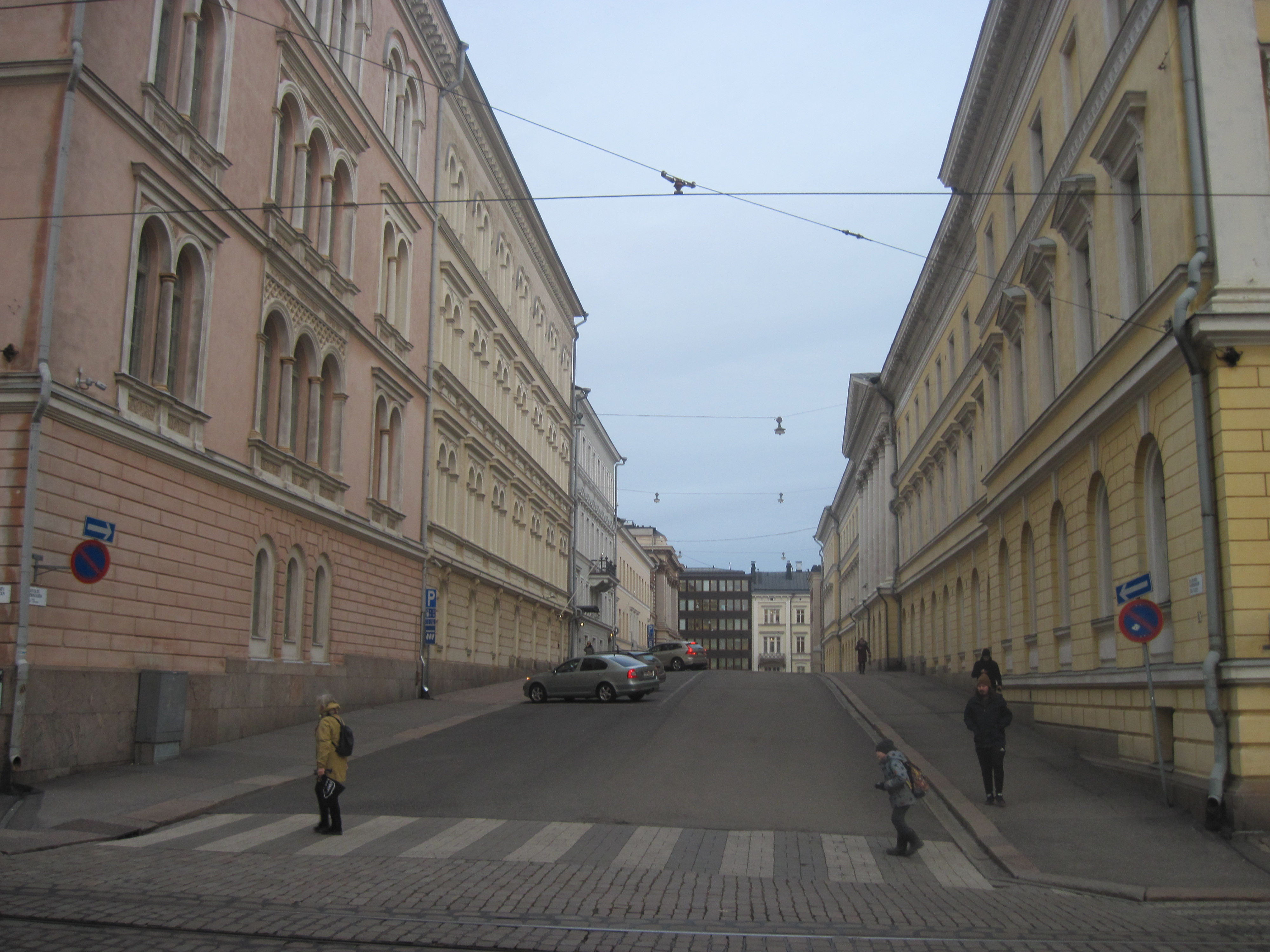 Hallituskatu in Helsinki as seen from the corner of Snellmaninkatu